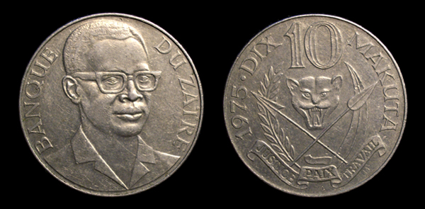 1975 Republic of Zaire Modern / 10 Makuta / Mobutu Sese Seko / KM 7 / Copper - Nickel